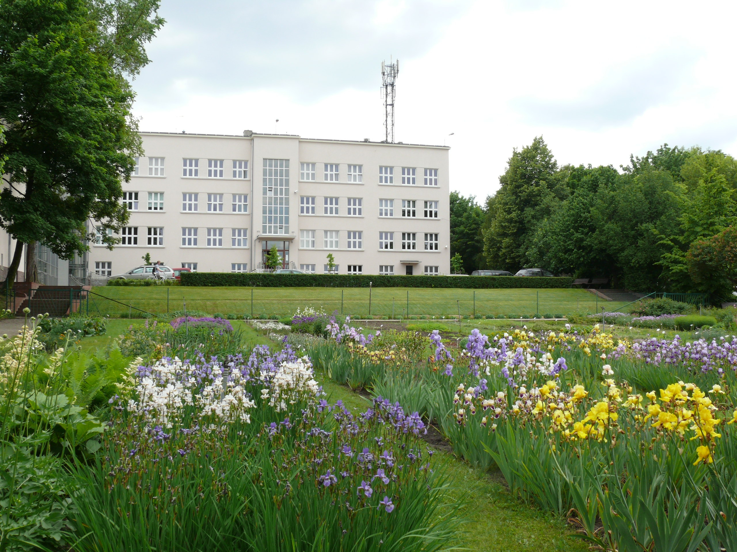 Main buildnig of FAculty of Horticulture, Univ. of Life Sciences Poznan